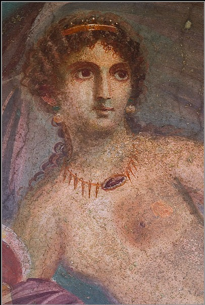 Women face. Detailed view of fresco from Pompei, dug out in 1960